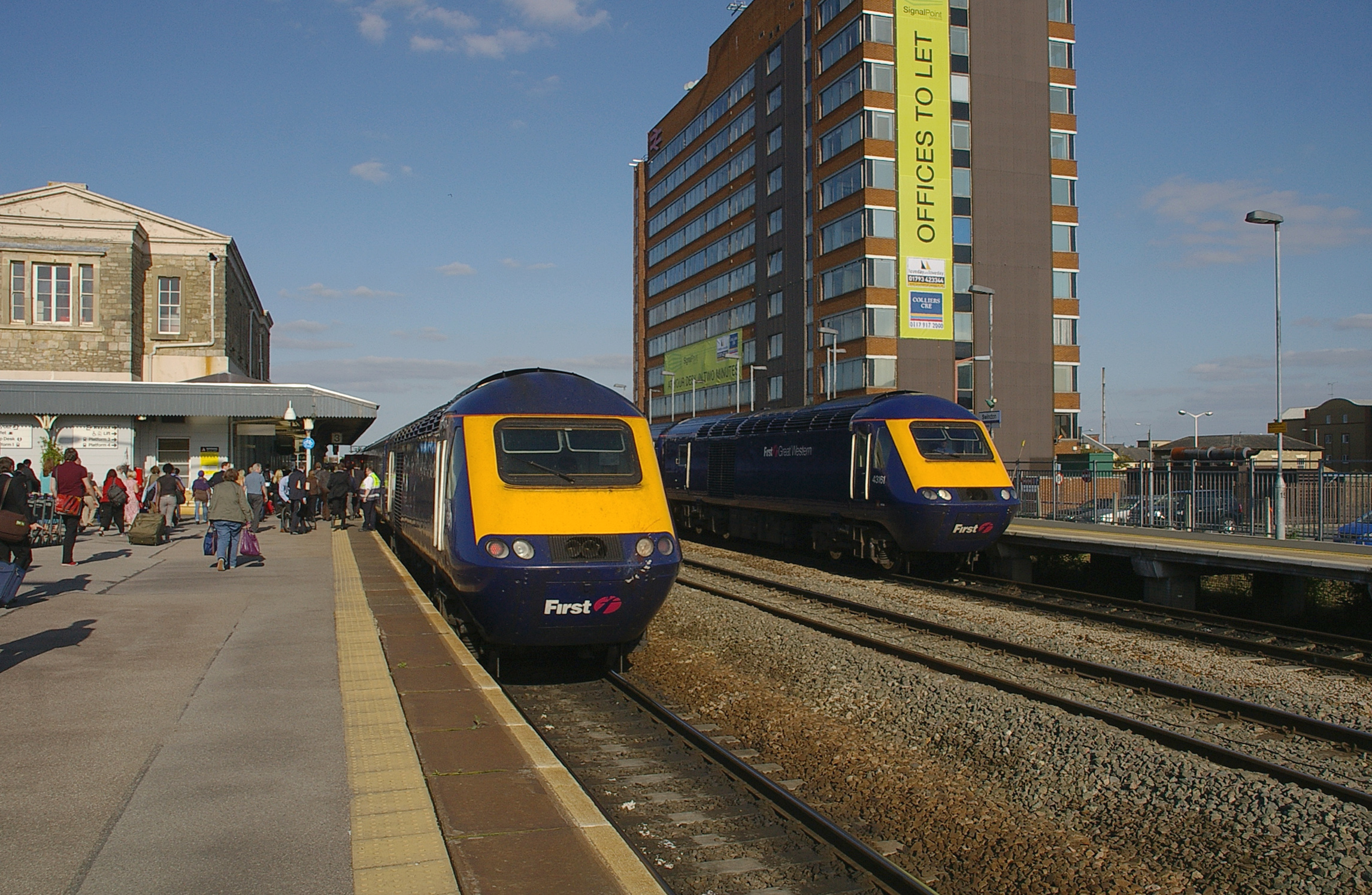 A First Great Western Intercity 125 tailed by 43168 sits at Swindon with a service to London Paddington, while a service to the west headed by 43161 gets ready to depart.